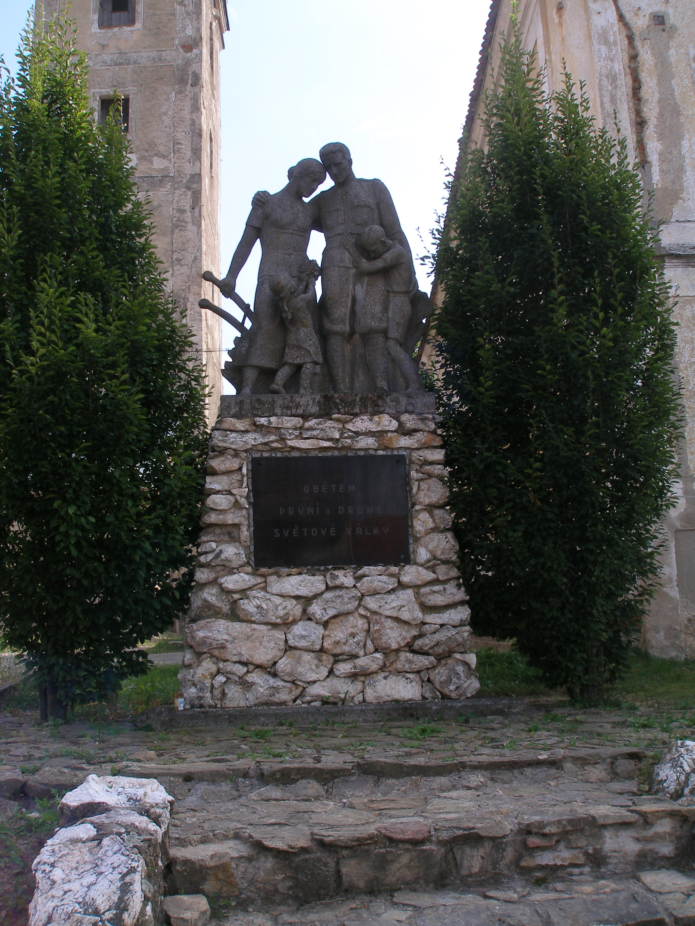 Dešná (Jindřichův Hradec district) - the monument of the victims of both Wold Wars